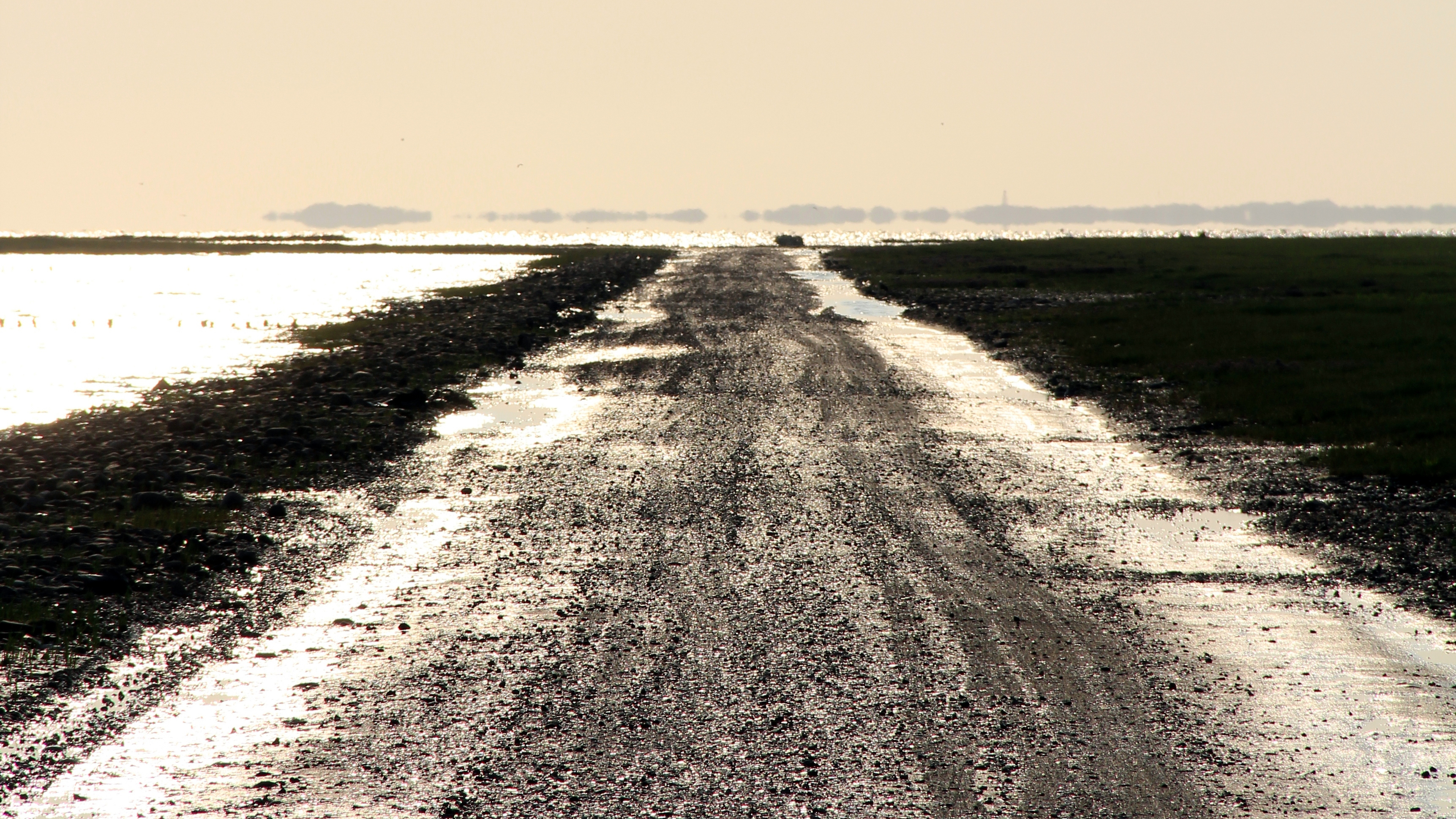 The road to Mandø